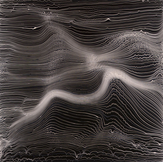 Untitled 1999, printers ink and resin on paper, 27 3/4 x 27 3/4 inches